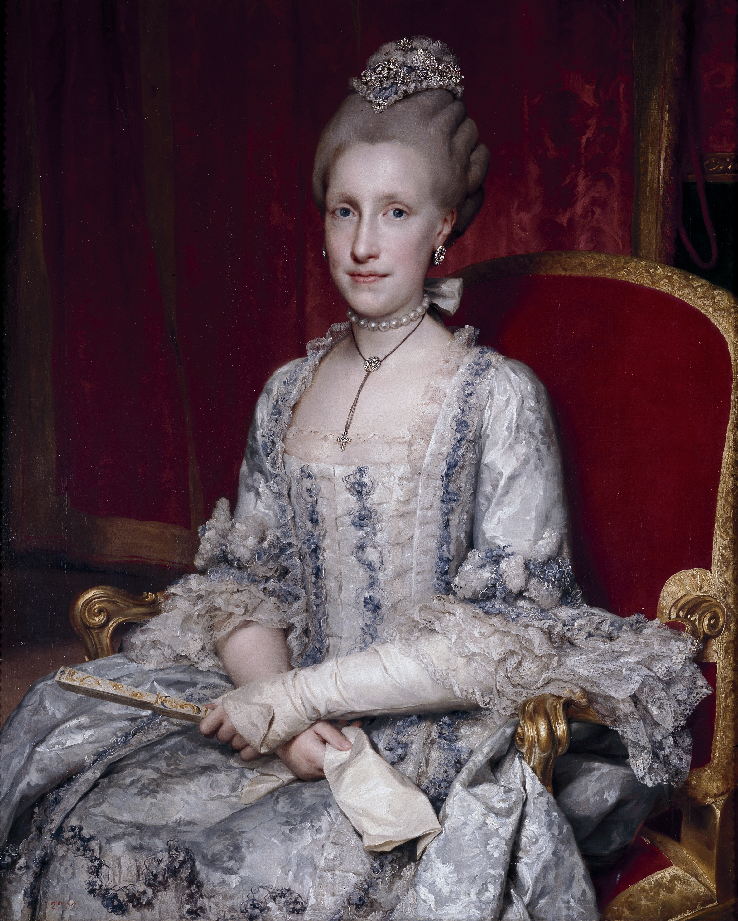 Portrait of Maria Luisa of Spain (1745-1792), Holy Roman Empress.